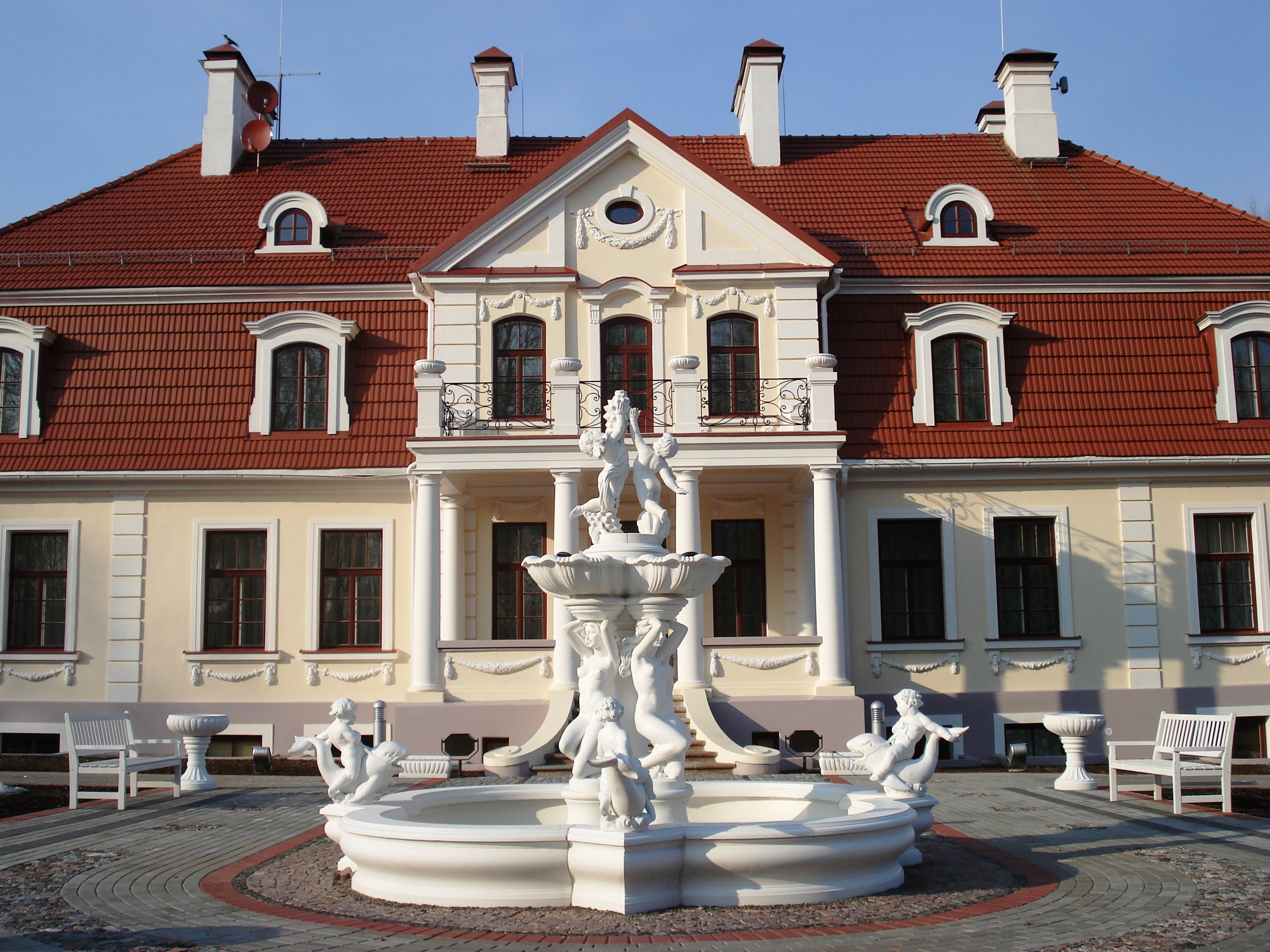 Svente manor, located in Daugavpils municipality, Latvia.